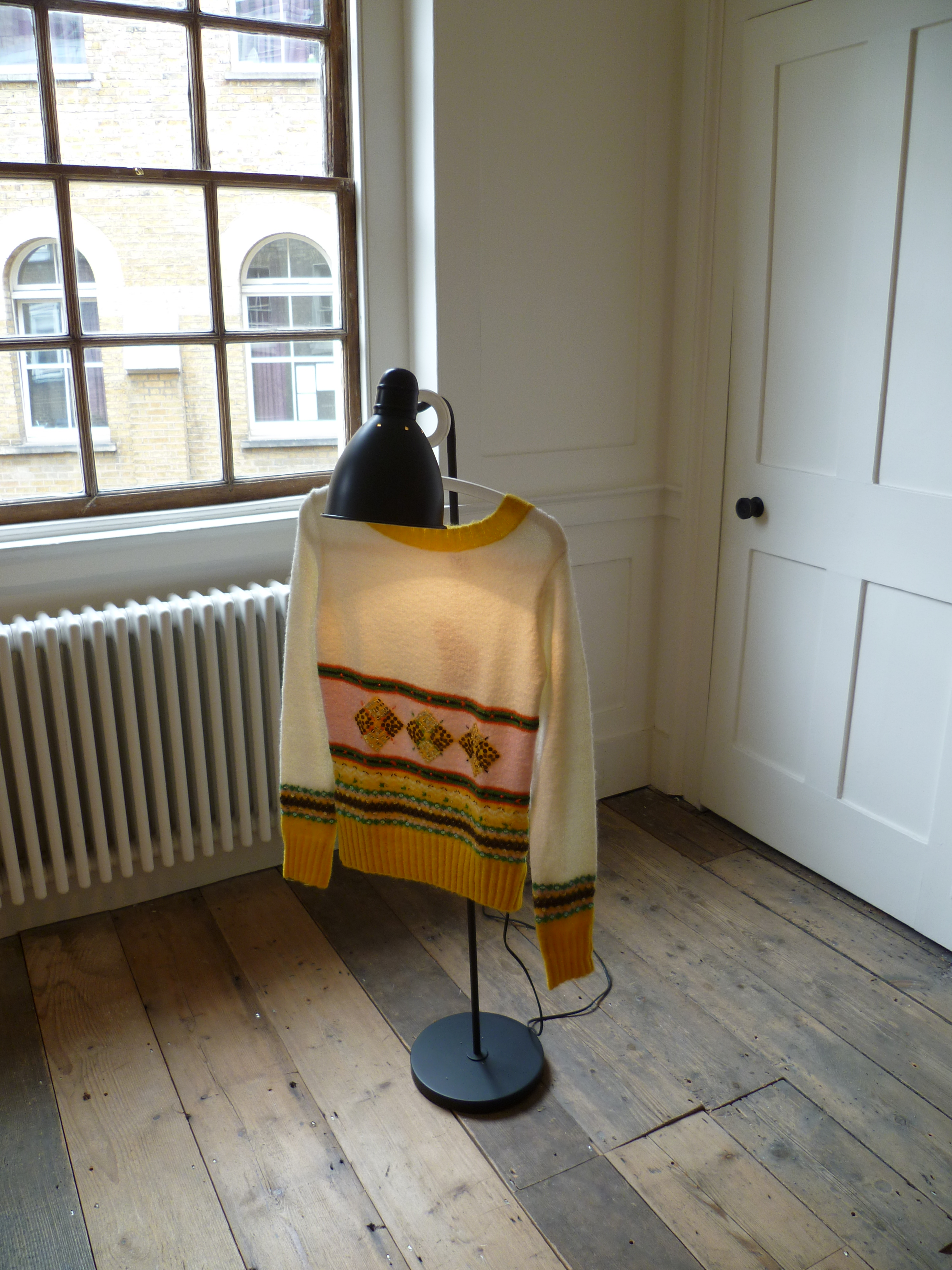 Consider the Lillies of the Field by Padraig Timoney, 2009. Jumper and Lamp. As shown at the Fontwell Helix Feely exhibition at the Raven Row Gallery, London, 12 June 2013.